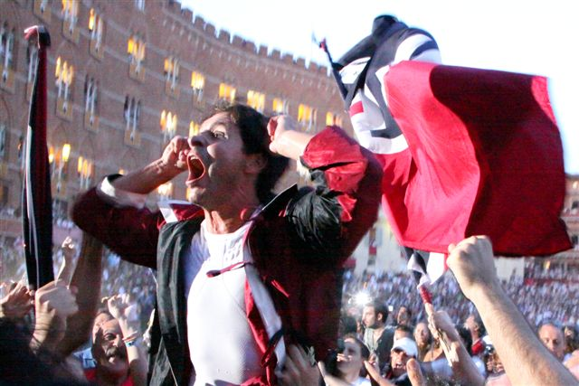 Andrea Mari exulting at his victory at the Palio di Siena